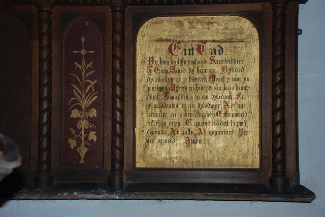 Eglwys Beuno Sant Penmorfa Gweddi'r Arglwydd - The Lord's Prayer